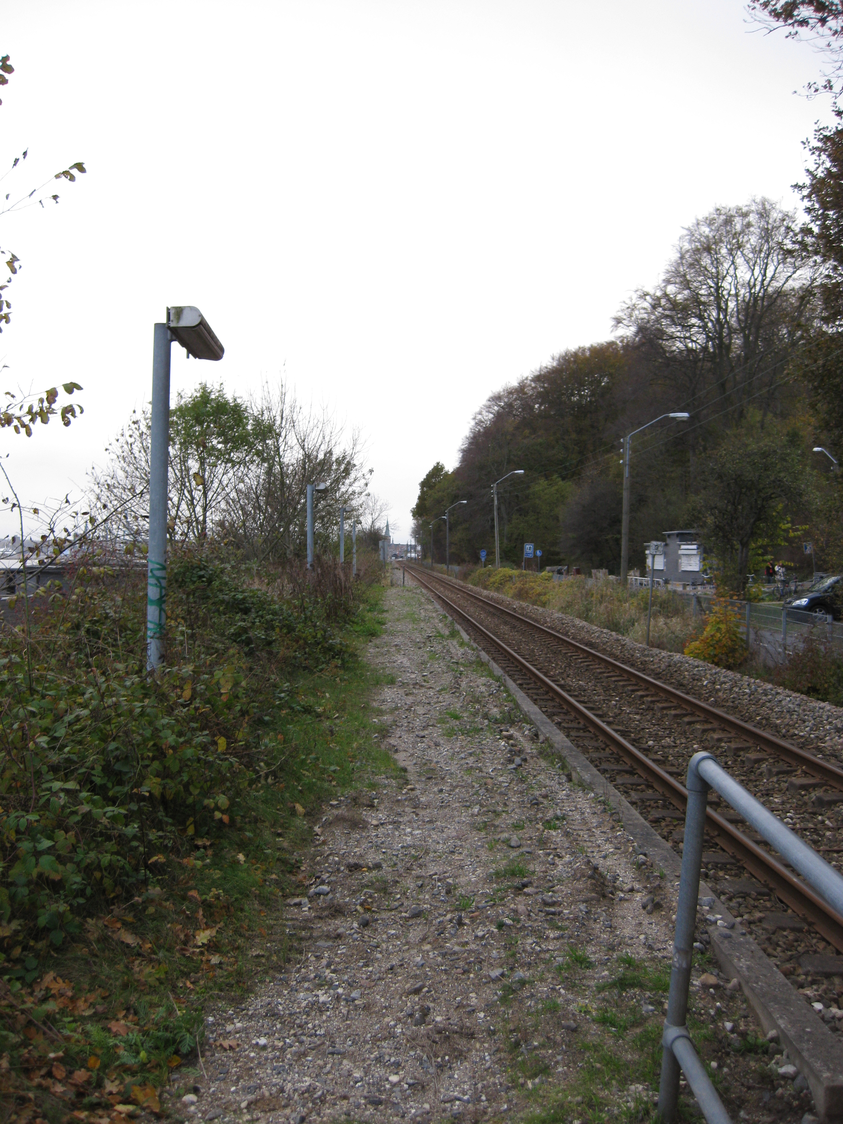 The abandoned station by Den Permanente, Århus, Denmark